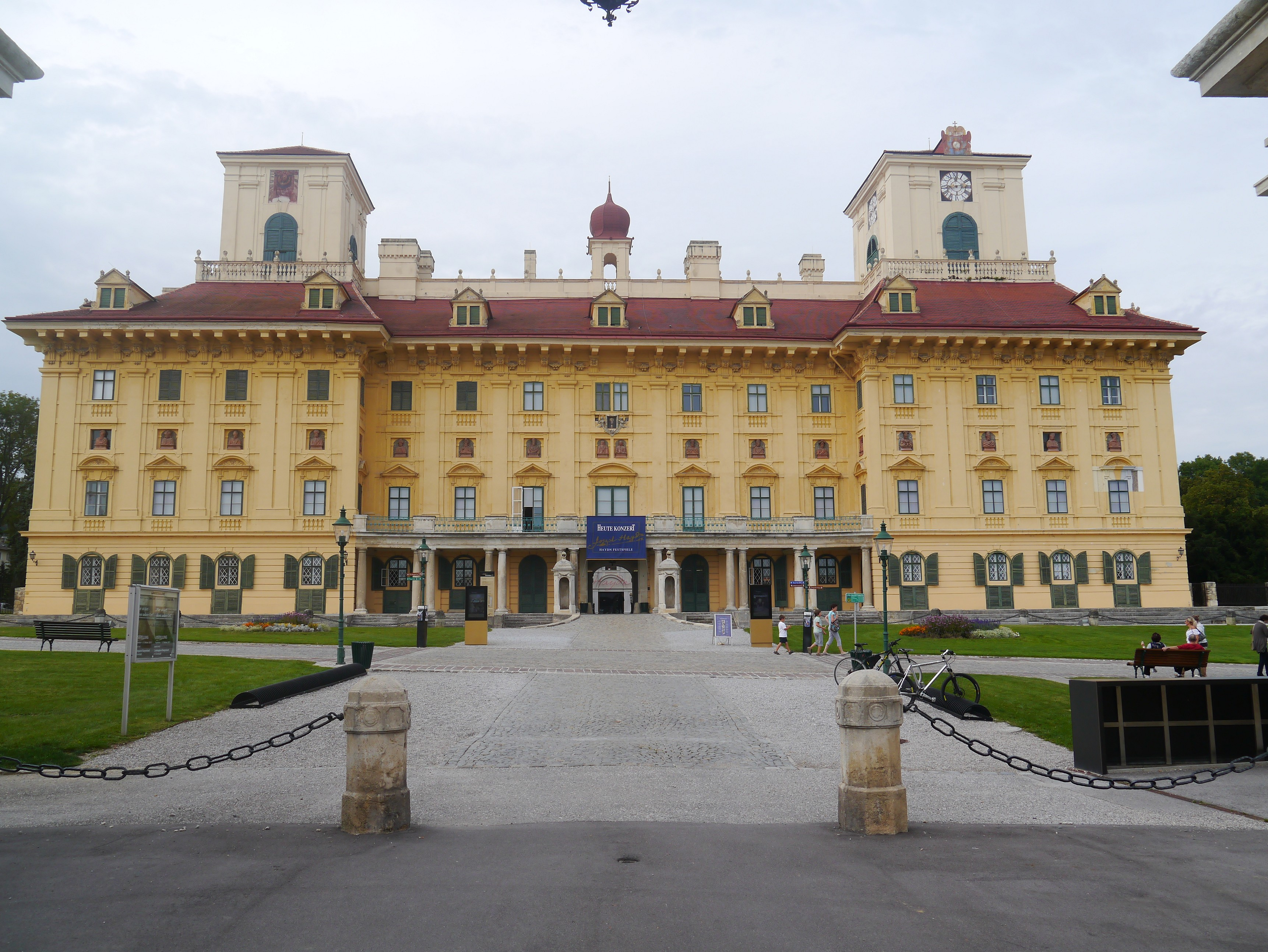 Eszterházy Castle, Eisenstadt